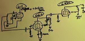 Arrowhead medicine chest door obverse Photo taken by Charles Benjamin Blish, uploaded by Charles Benjamin Blish to Wikipedia January 2005 for use in Arrowhead article. Image copyright Charles Benjamin Blish, released to the public domain January 2005